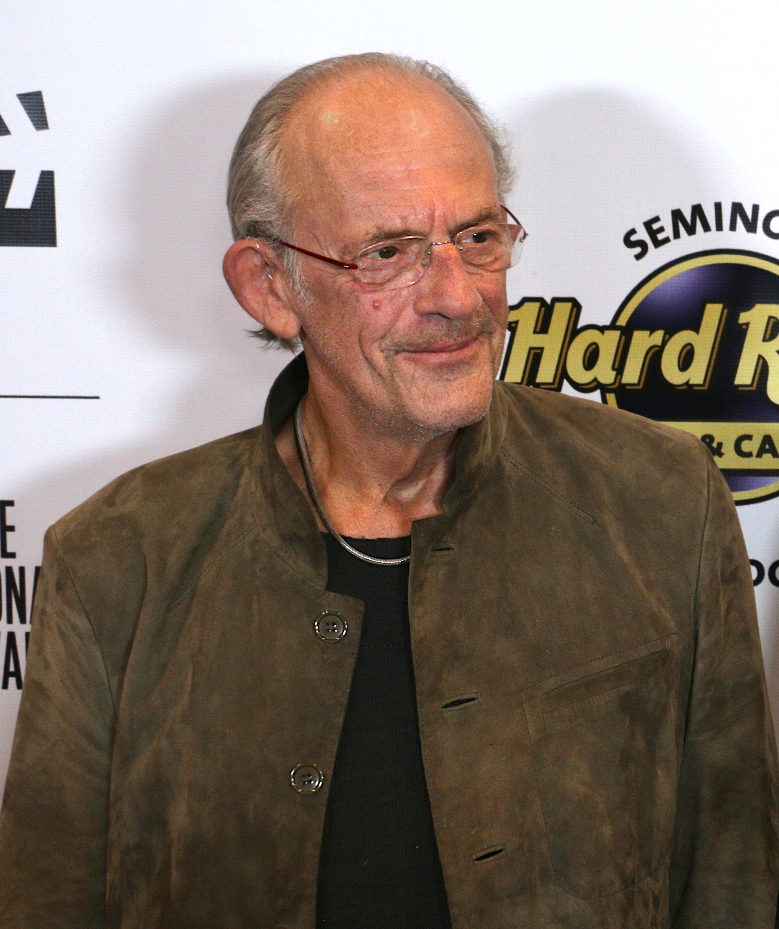 Christopher Lloyd at the Fort Lauderdale Film Festival, 2015.